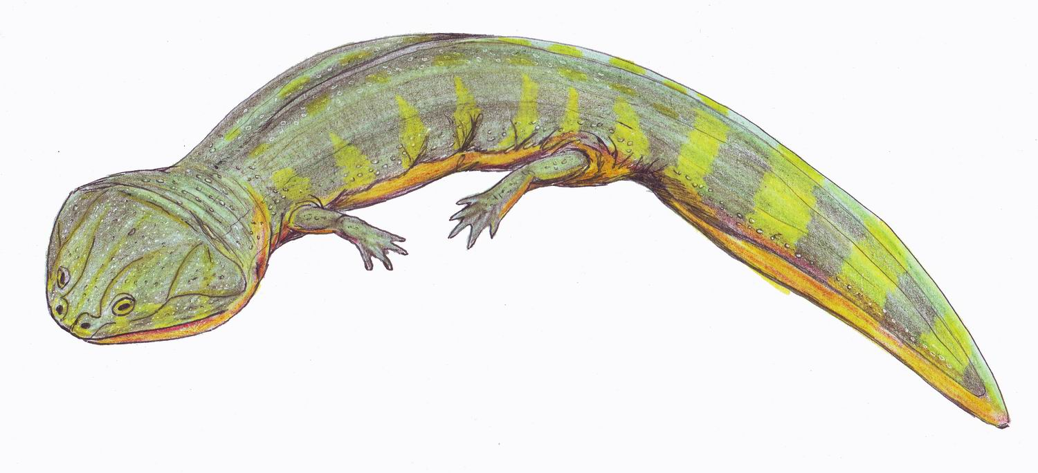 Batrachosuchus watsoni